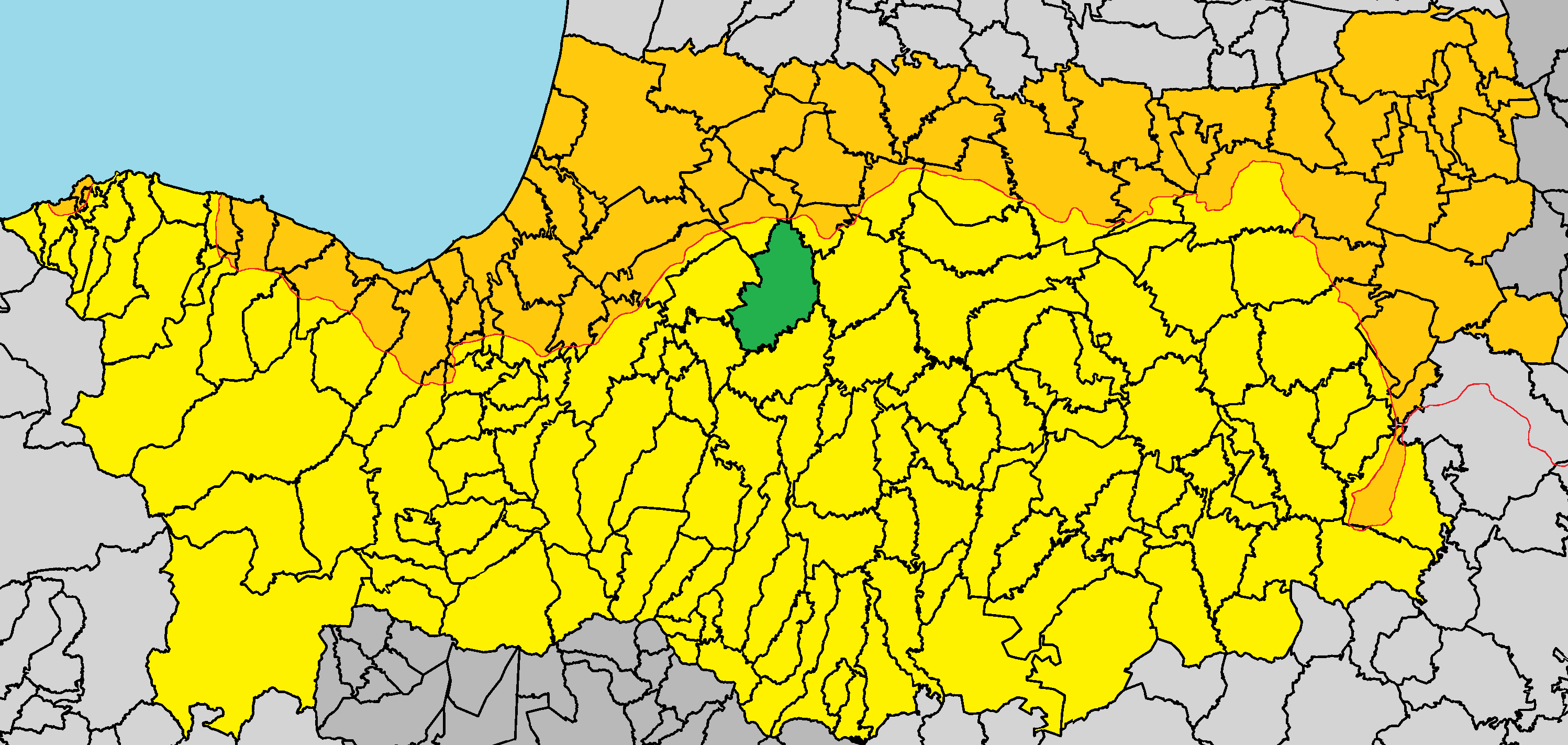 Peristerona in Nicosia District.